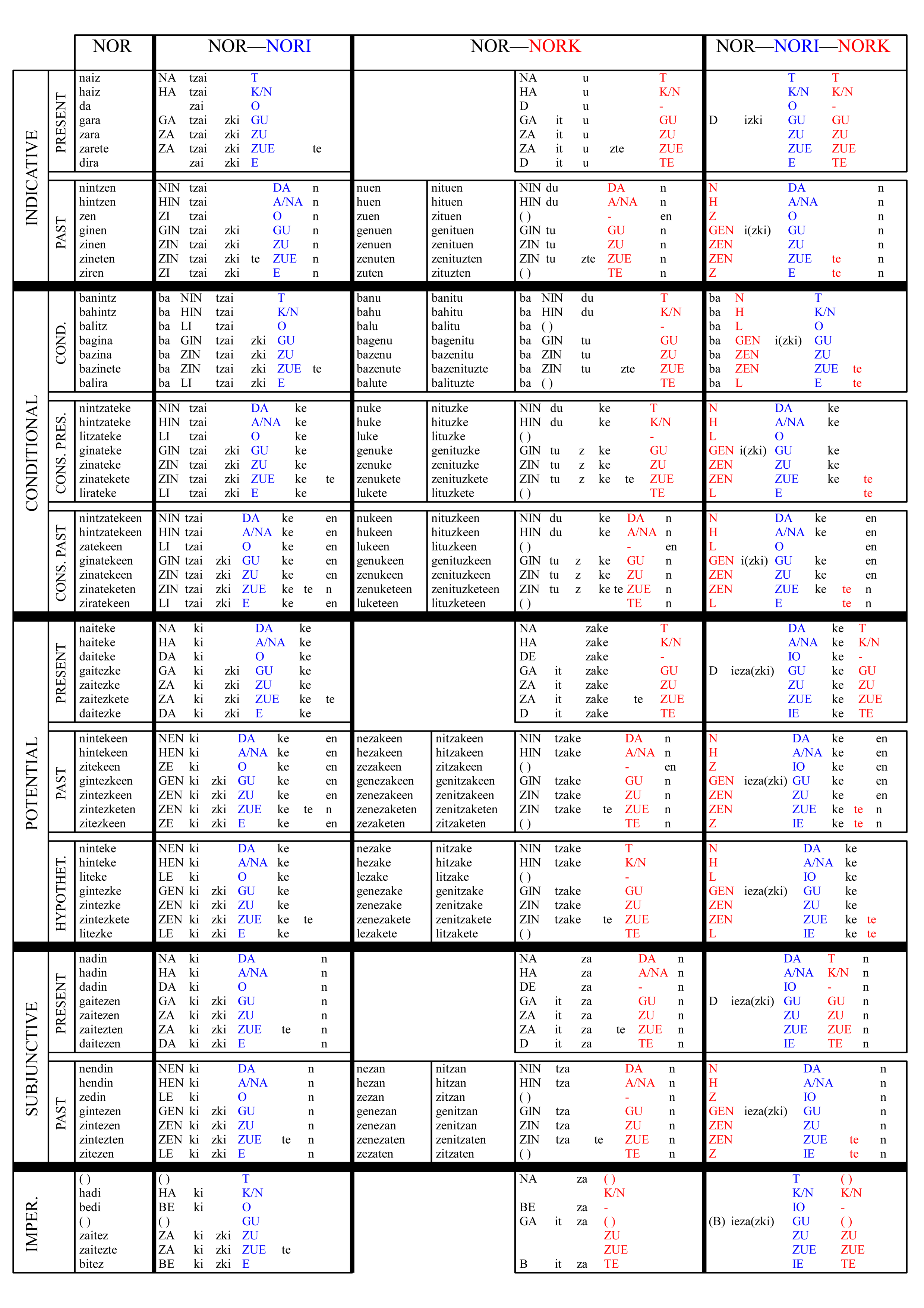 Full table of the most common forms of the Basque auxiliaries izan and ukan